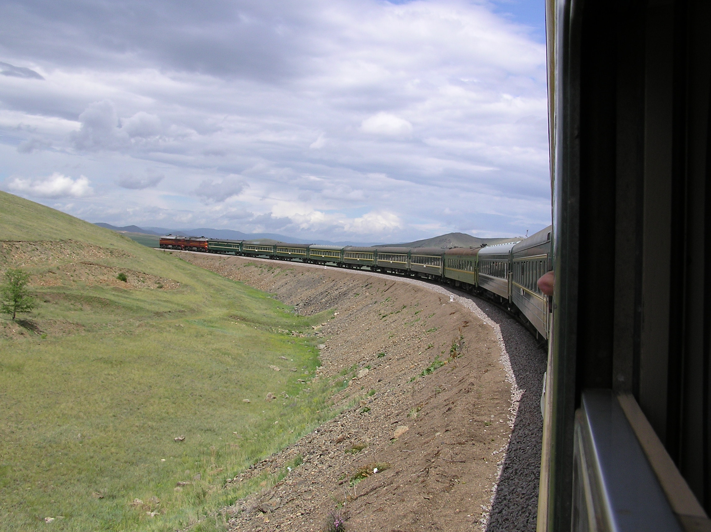 The Trans-Mongolian train from Beijing to Moscow passes through the Gobi Desert in Mongolia. Photo taken by Michael Cleland 25 July 2003.